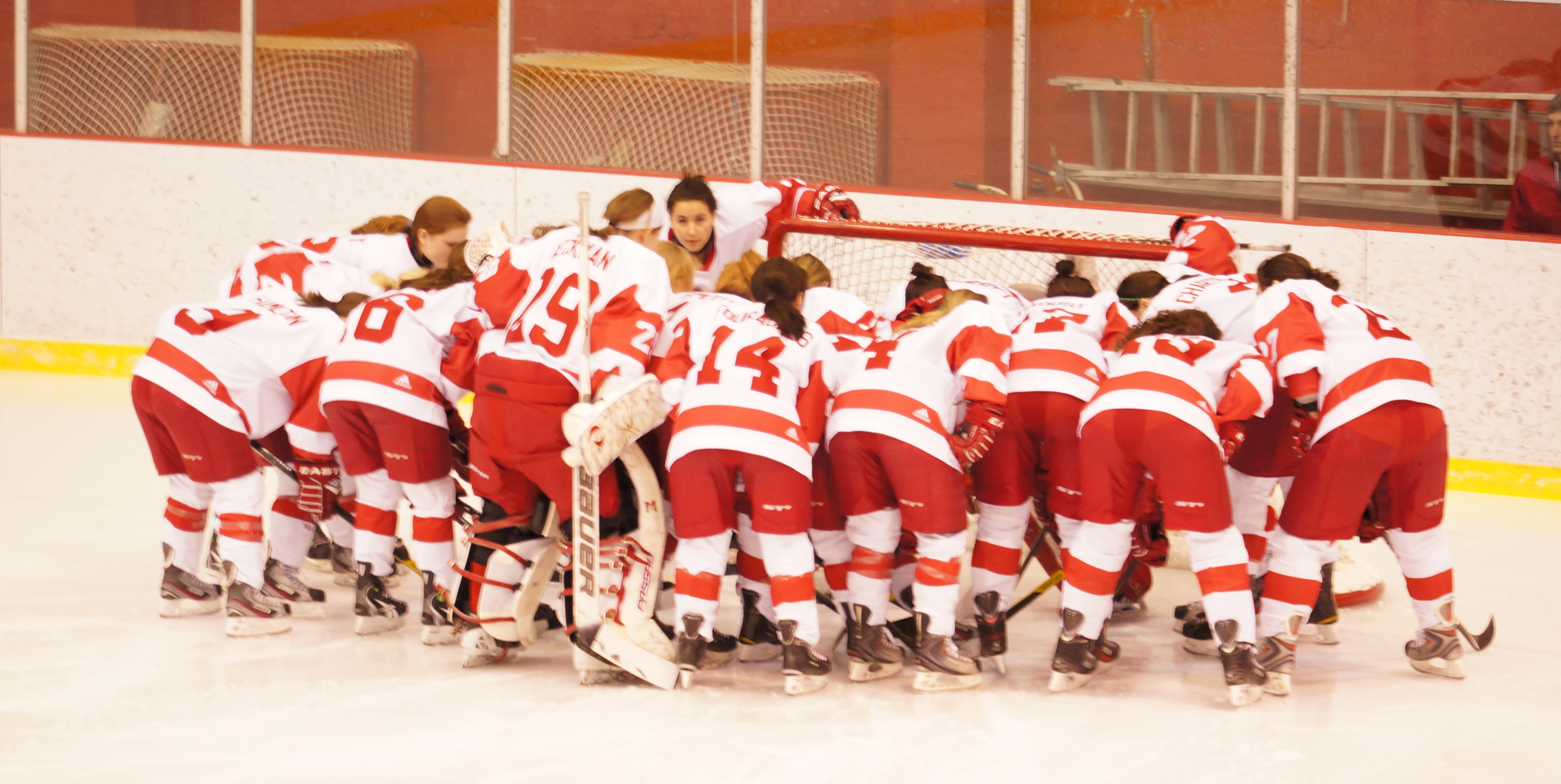 The McGill Martlets are a women's ice hockey team based out of Montreal, Quebec. The Martlets defend the colors of McGill University, and are members of the Quebec Student Sports Federation ( RSEQ), and compete for the Canadian Interuniversity Sport women's ice hockey championship